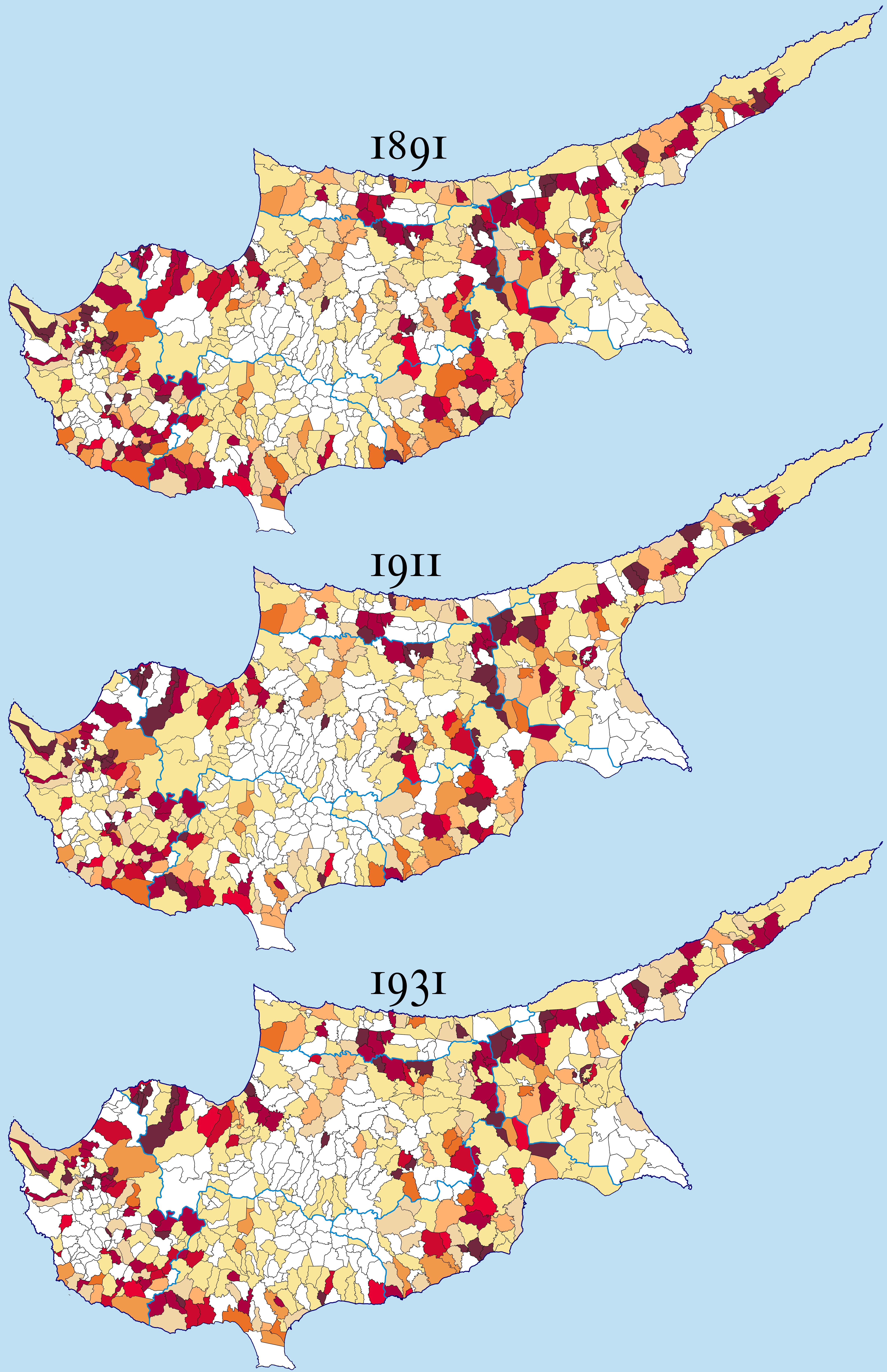 Distribution of Turkish-Cypriot population, according to the 1891, 1911 and 1931 censuses.